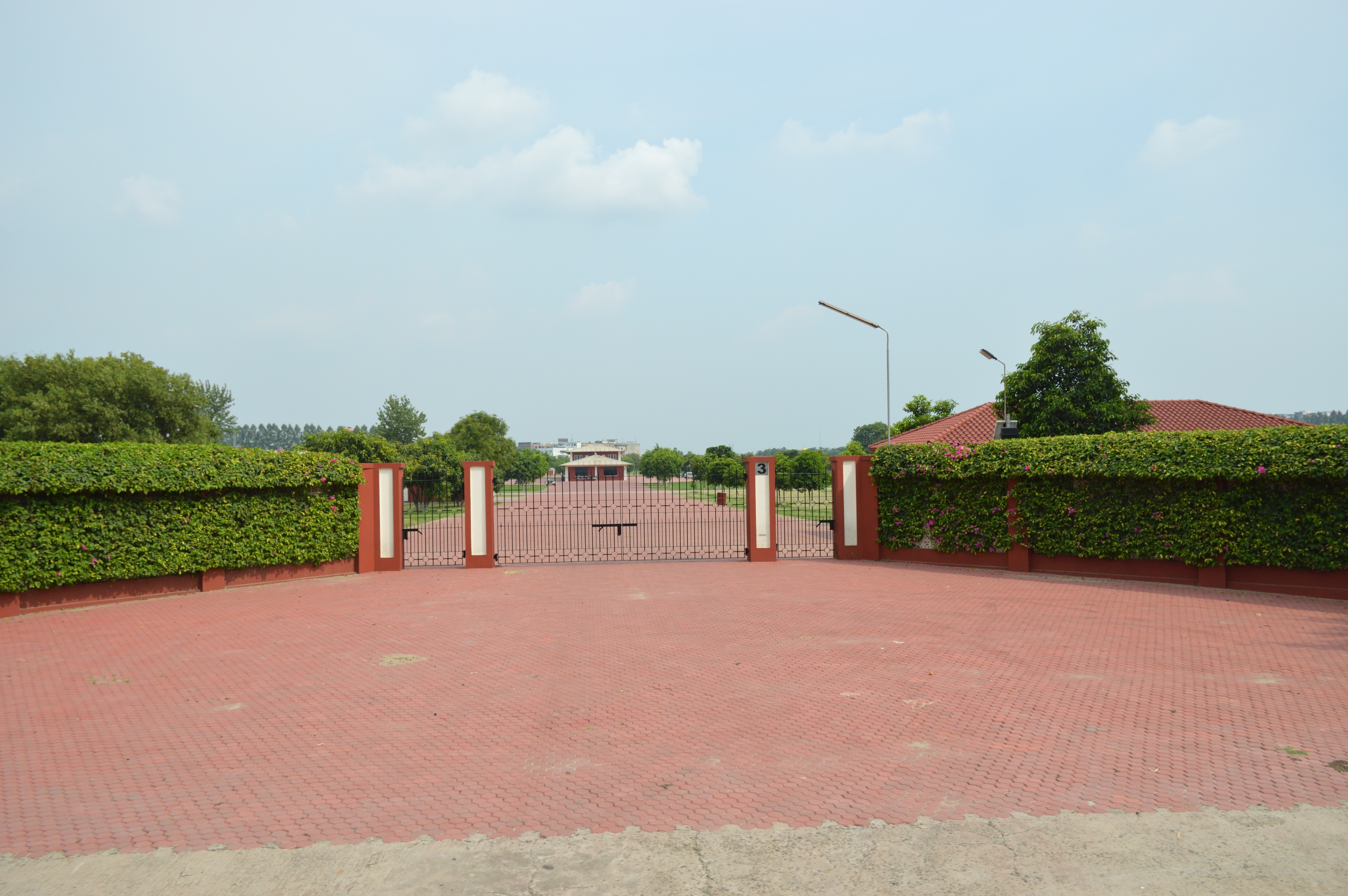 Photographed in Mohali.